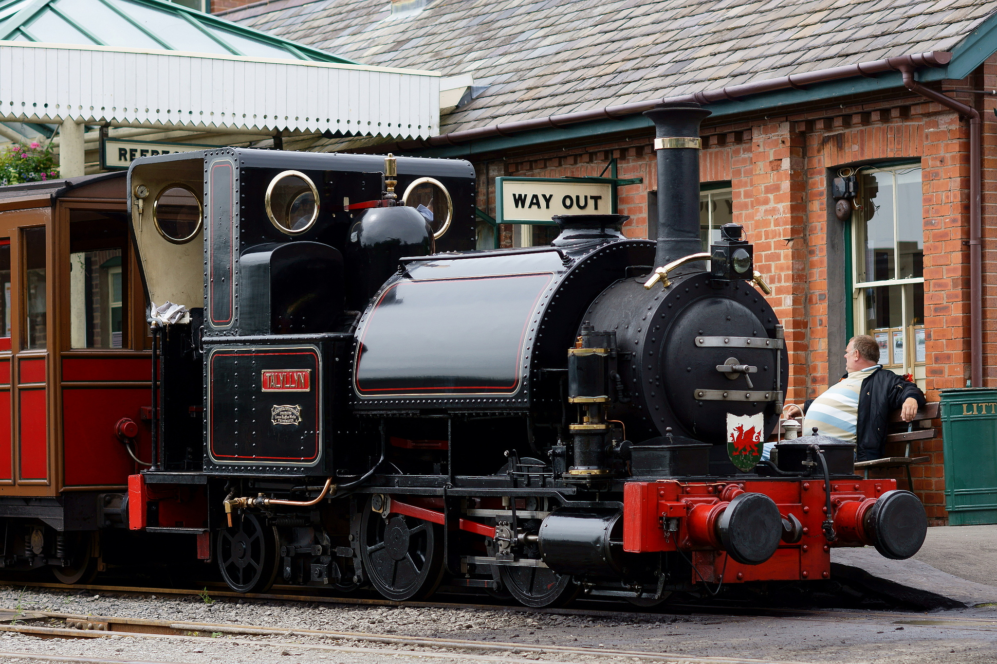 Originally built in 1864 by Fletcher, Jennings & Co. of Whitehaven as an 0-4-0ST, "Talyllyn" had a short wheelbase and long rear overhang which led to its rapid conversion to an 0-4-2ST